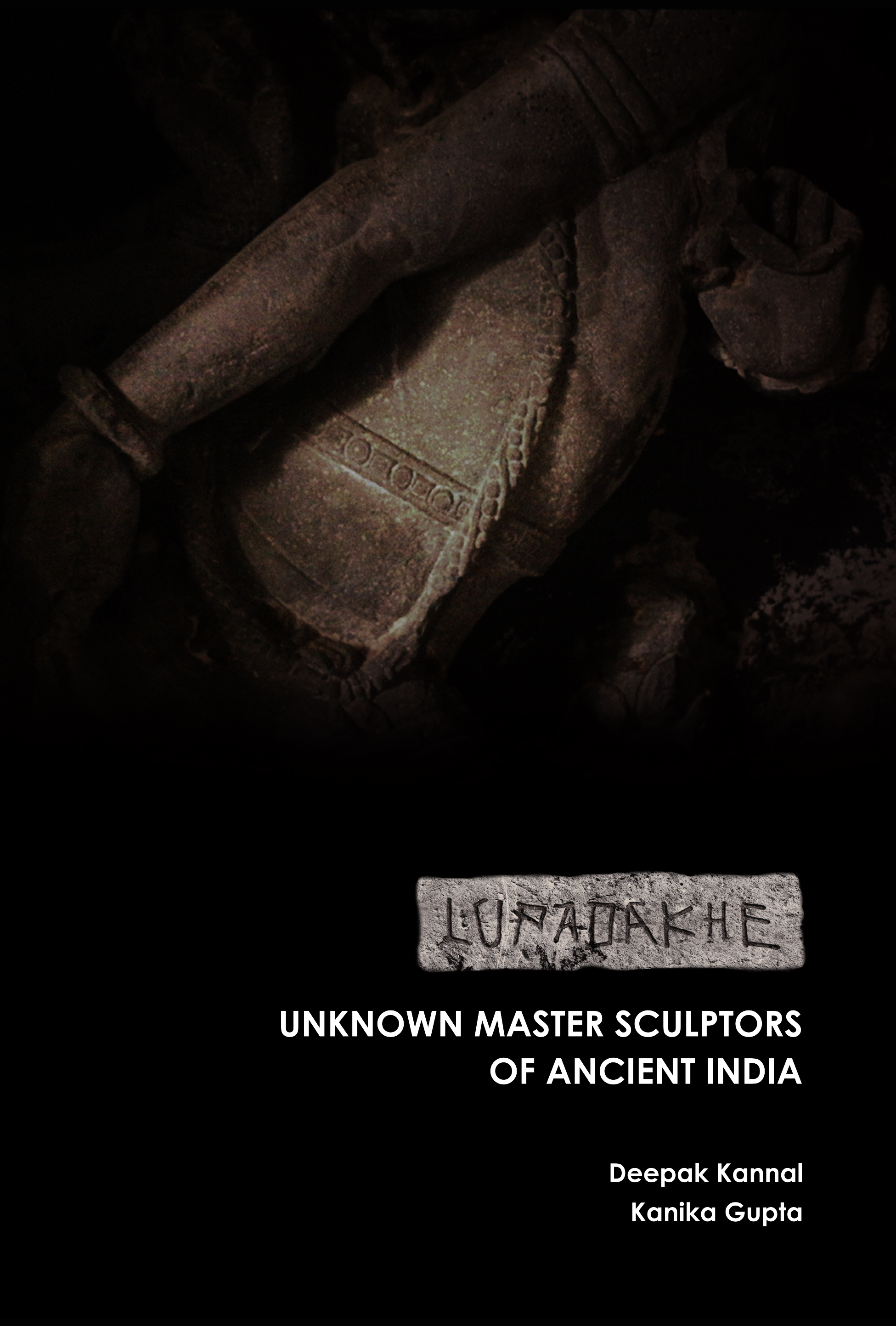 Authors - Deepak Kannal, Kanika Gupta, 2019